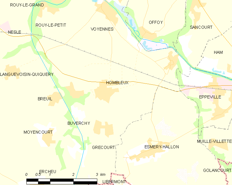 Map of French municipality Hombleux